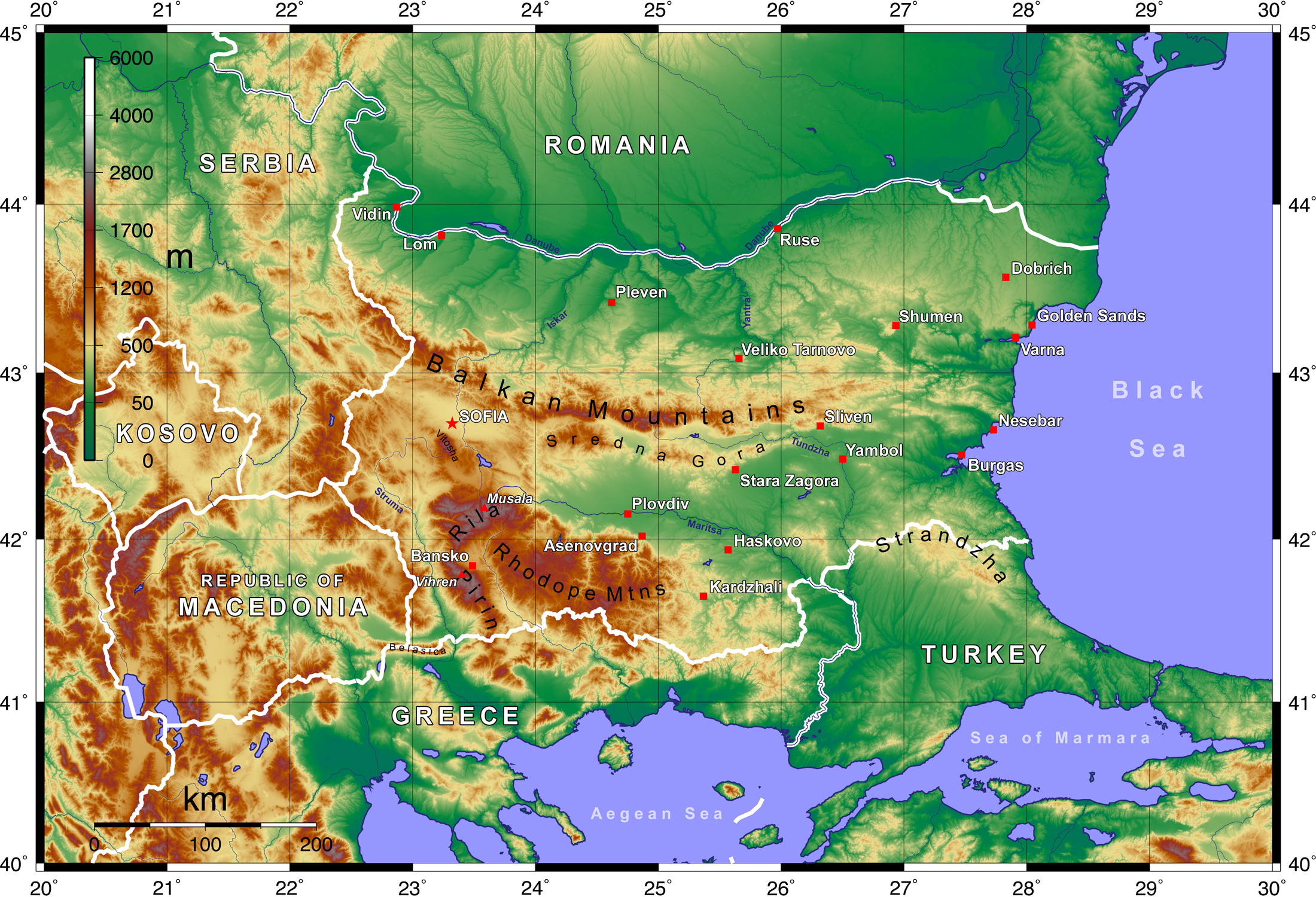 Topographic map of Bulgaria with English labels, created with GMT and elevation data from the SRTM